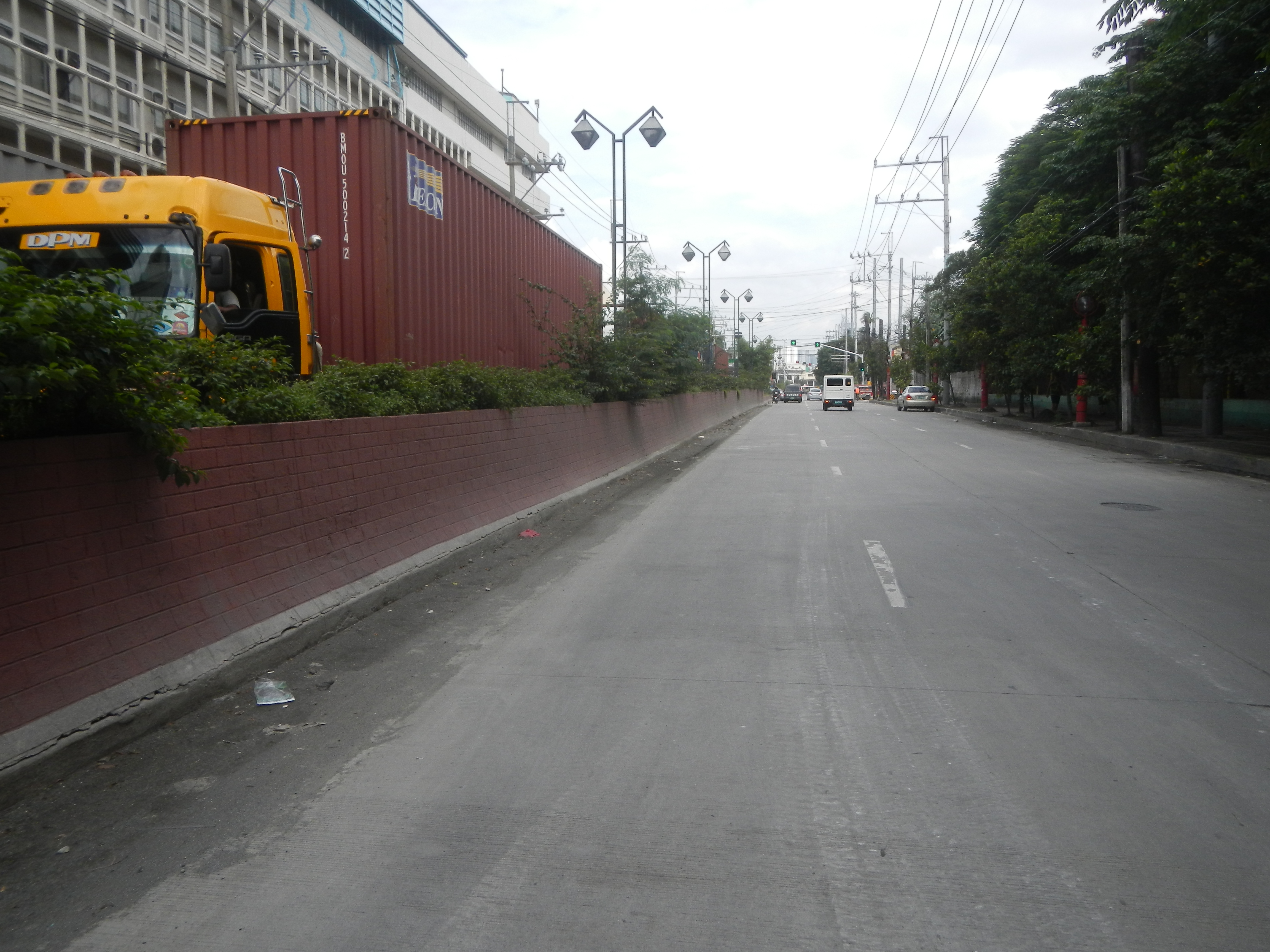 St. Peter the Apostle School - Bishop J. B. Velasco Building Saint Peter the Apostle Parish Church (President Qurino Avenue, Paco, Manila) List of barangays of Metro Manila, Legislative districts of Manila 6th District, Barangays 841, Zone 92, 849, Zone 93, District VI, and Barangays 821, 822, 823, 824, 825, 826 and 827, Zone 89, District V, and Barangays 677, 678, 679 and 680, Zone 74, District V, Paco, City of Manila, along W. Zamora Street towards Quirino Avenue Extension formerly called Canonigo Street corner Peñafrancia Street (Note: Judge Florentino Floro, the owner, to repeat, Donor Florentino Floro of all these photos hereby donate gratuitously, freely and unconditionally all these photos to and for Wikimedia Commons, exclusively, for public use of the public domain, and again without any condition whatsoever).